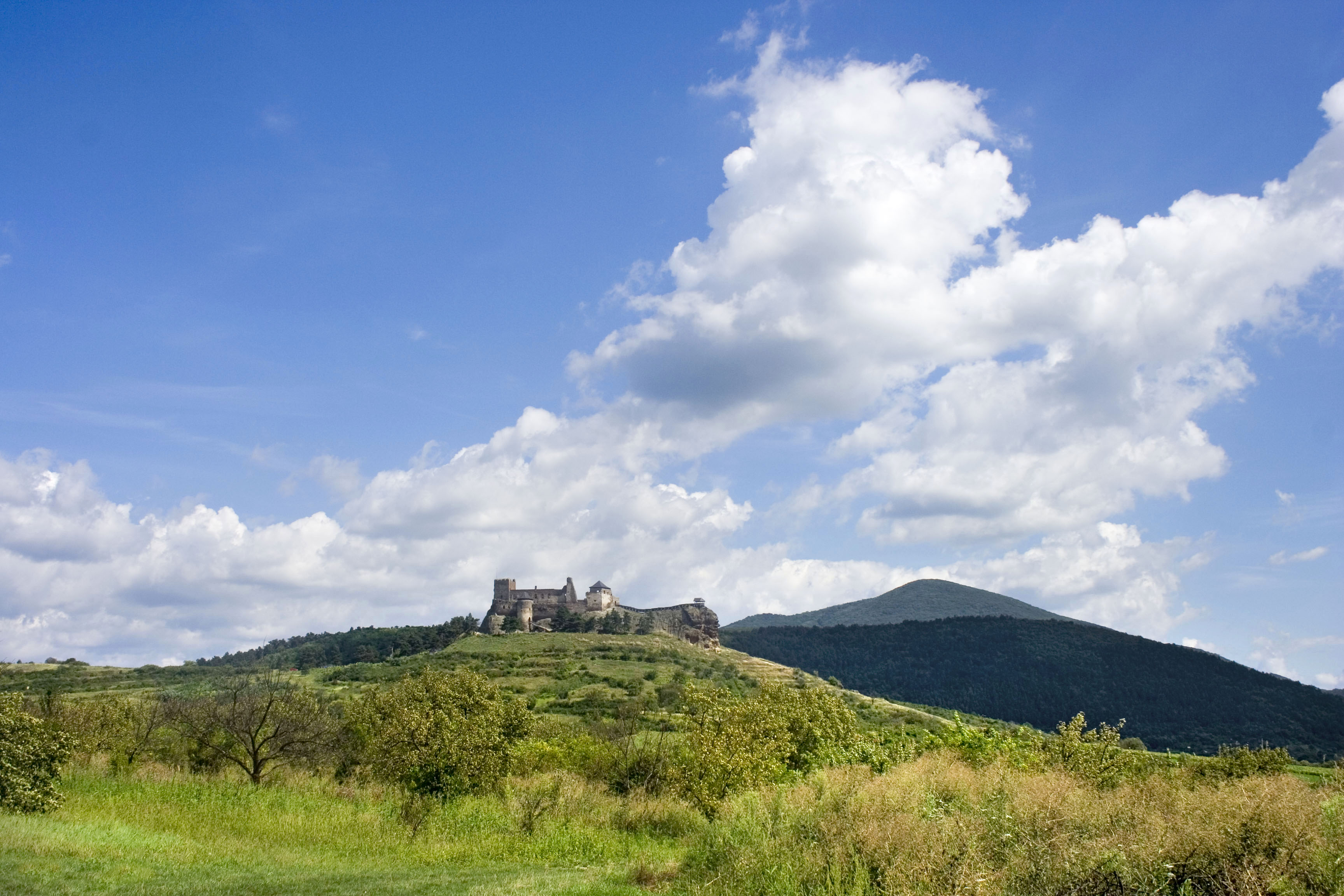 Hungary / Boldogkő Castle - wide panorama